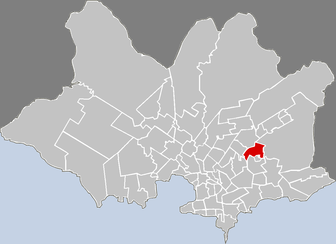 Map highlighting the given barrio in Montevideo.